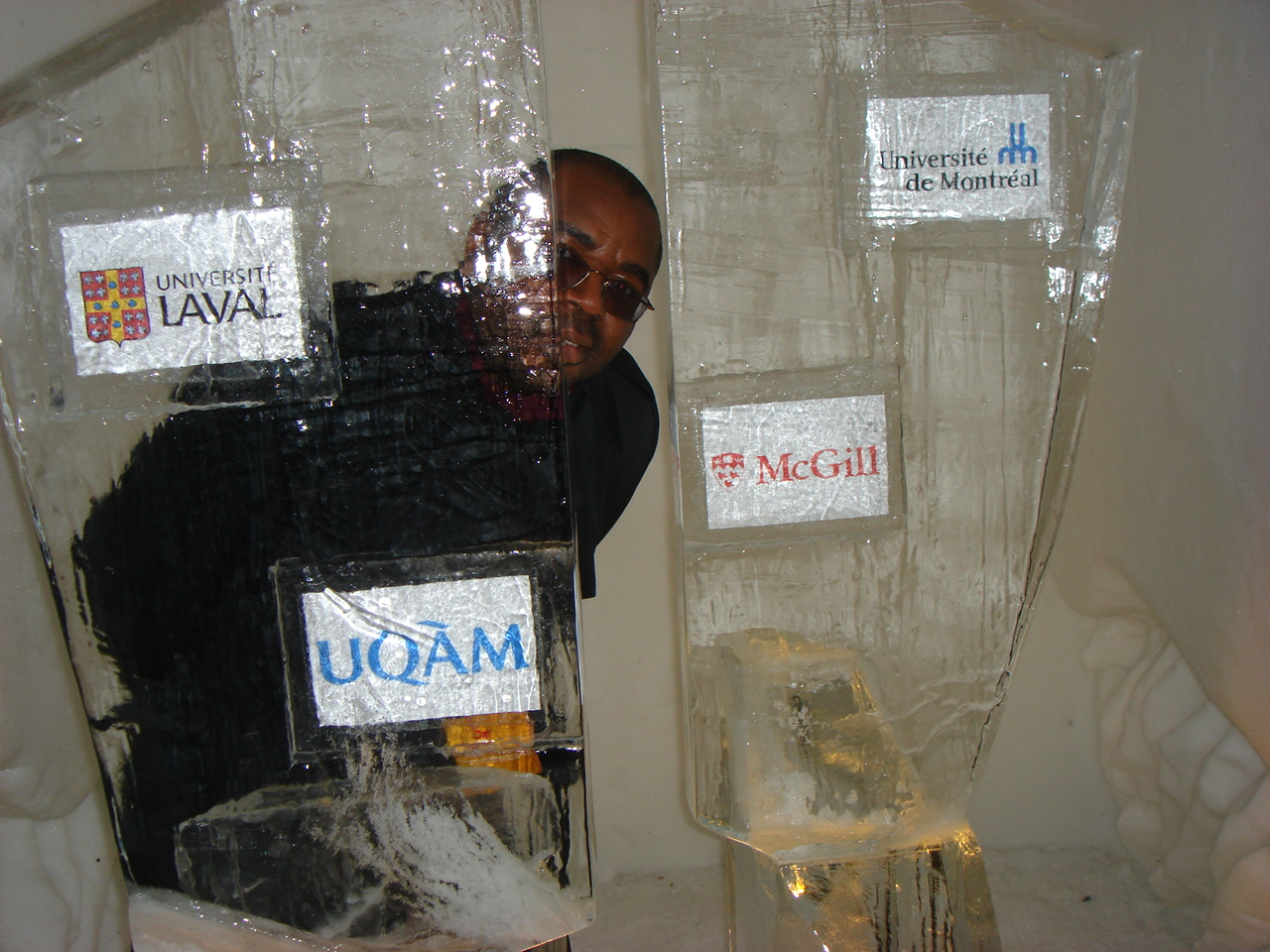 Vincent-Sosthène Fouda, photo de glace